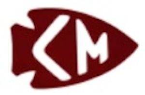 Logo for Cheyenne Mountain High School (Cheyenne Indian arrowhead)